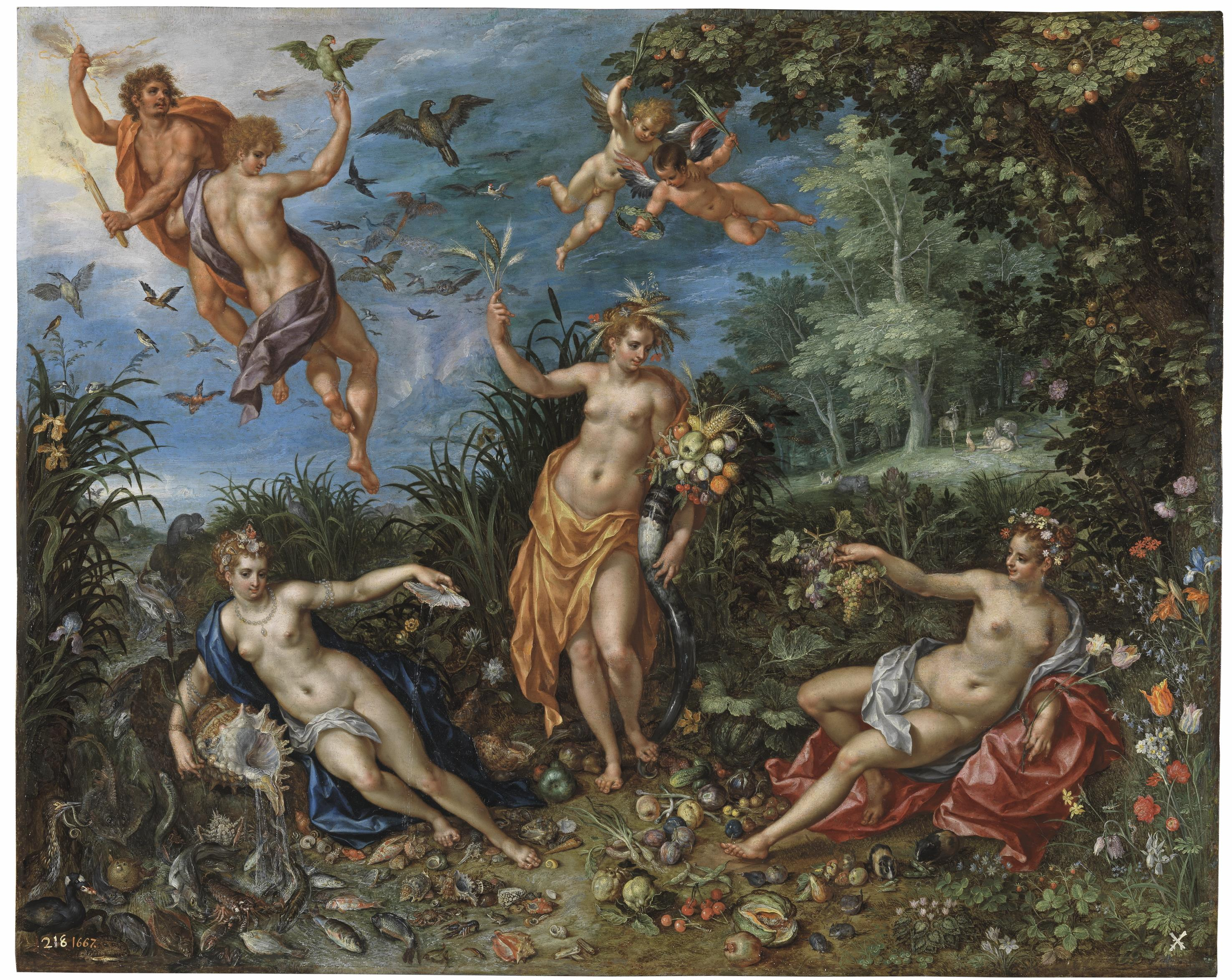 Height: 51 cm (20 ″); Width: 64 cm (25.1 ″) dimensions QS:P2048,51U174728;P2049,64U174728